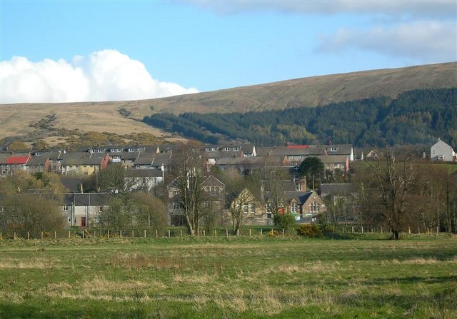 Dailly View, near to Dailly, South Ayrshire, Great Britain. The ex-mining village of Dailly, with Hadyard Hill in the background. The primary school is in the foreground on the right.